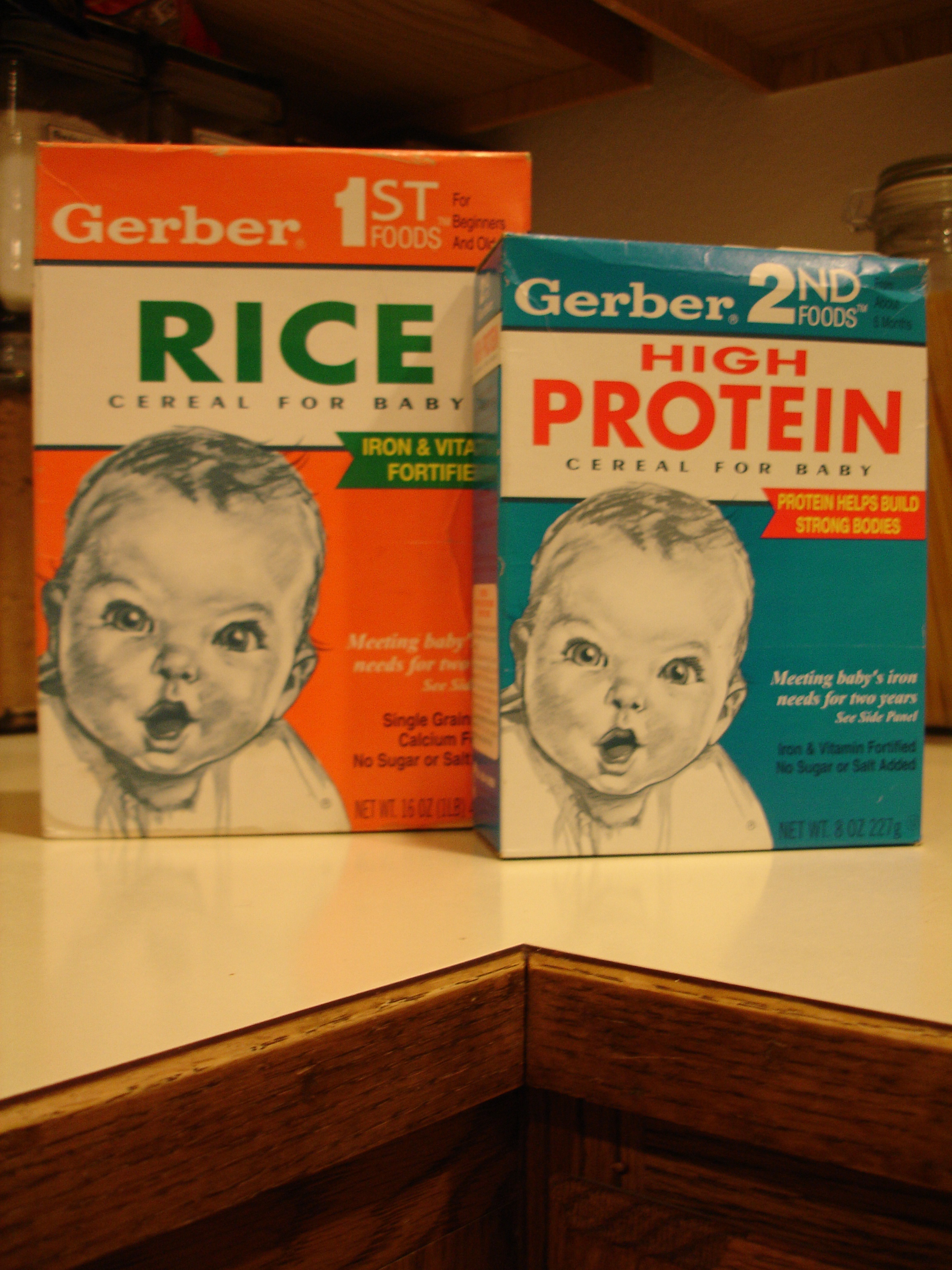 Gerber's Baby Box Food: So, cleaning out the cupboards tonight. Finally made myself look at the Gerber boxes. I guess it has been a subconscious or not so subconscious move to just keep them in the cupboard. I have moved these boxes in and out of five cupboards now. Yes, these were the boxes of Gerber cereal that Michael didn't finish when he moved onto cheerios. These were the boxes waiting for another baby. These were the boxes that allowed me to get through those "not happening" years to dream of the baby that may someday come. So, I haven't given up the dream, but have decided to admit it won't be soon enough to need any of Michael's leftovers.